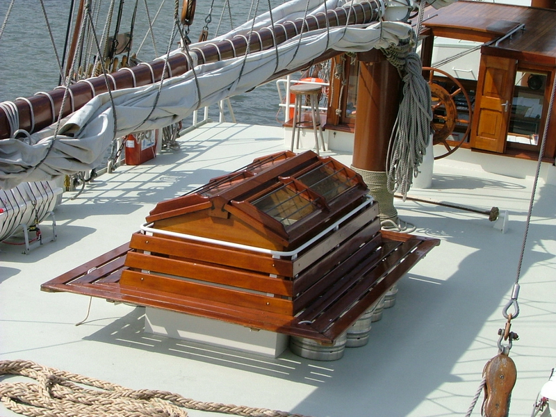 Dutch sailing ship Mare Frisium